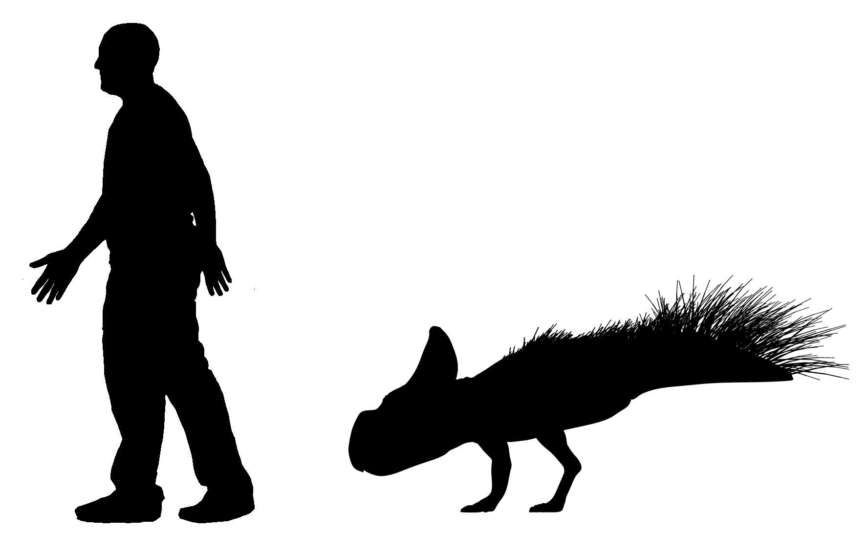 Size comparison between the derived protoceratopsid ceratopsian Protoceratops (1.8 m long) and the human Andrew A. Farke (1.8 m tall).